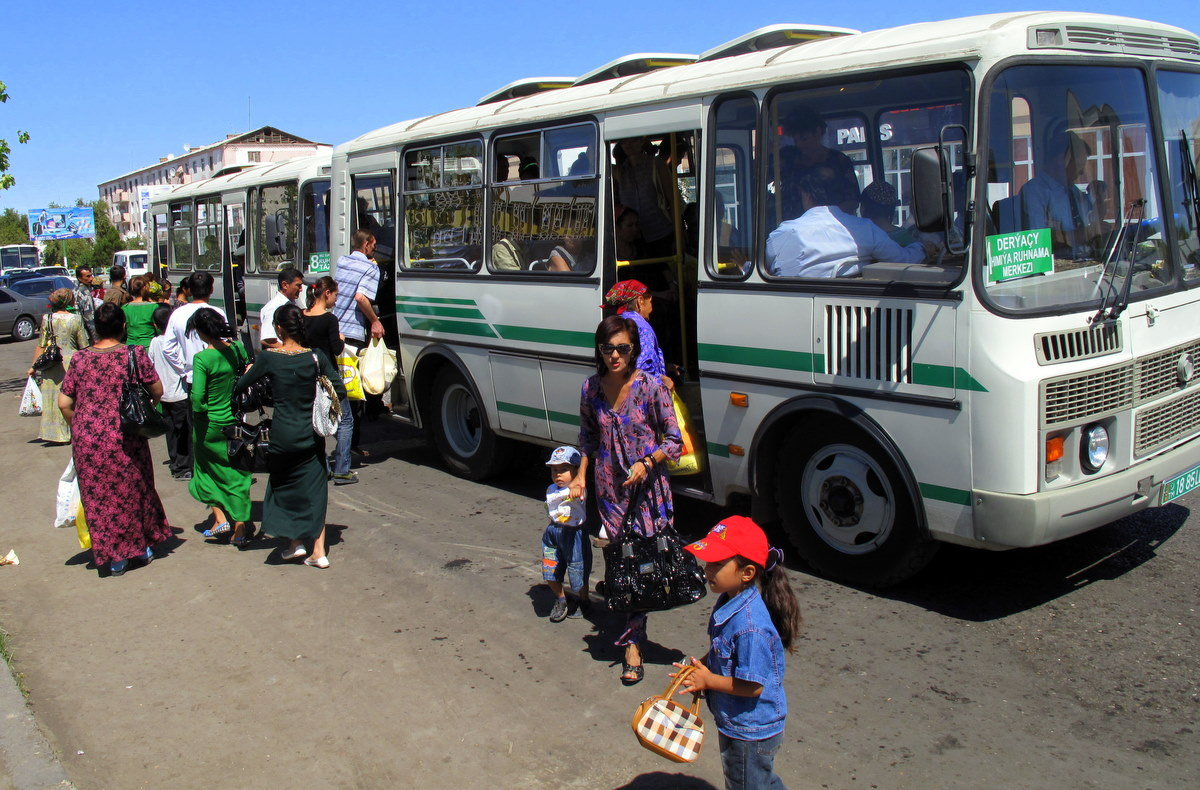 Bus Stop Türkmenabat in Turkmenistan.